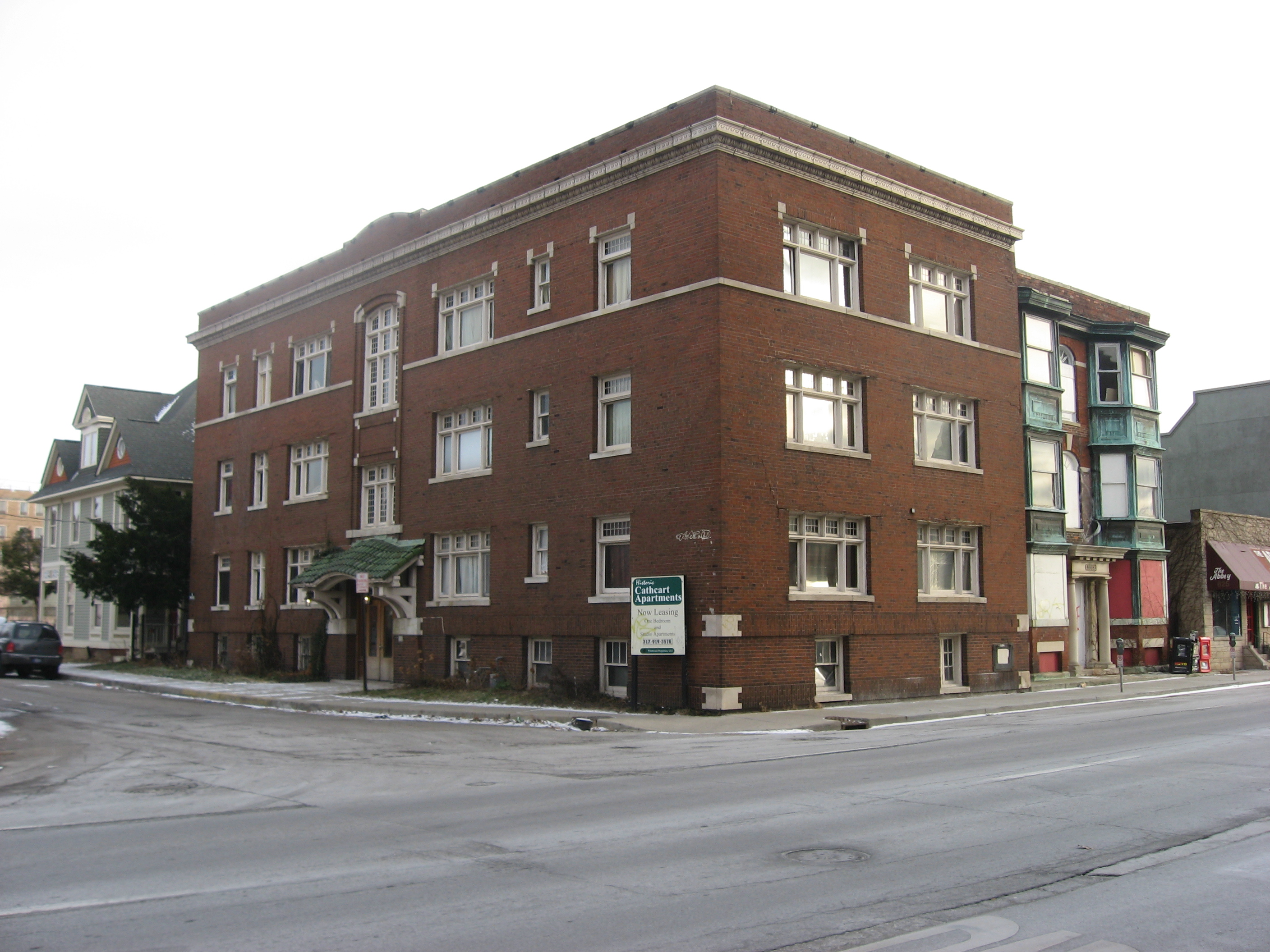 Front of The Cathcart, located at 103 E. Ninth Street in Indianapolis, Indiana, United States. Built in 1909, it is listed on the National Register of Historic Places as one of the "Apartments and Flats of Downtown Indianapolis Thematic Resources". Note The Lodge, another Register-listed apartment building in the "Apartments and Flats" group, located next door to The Cathcart on the right edge of the picture.